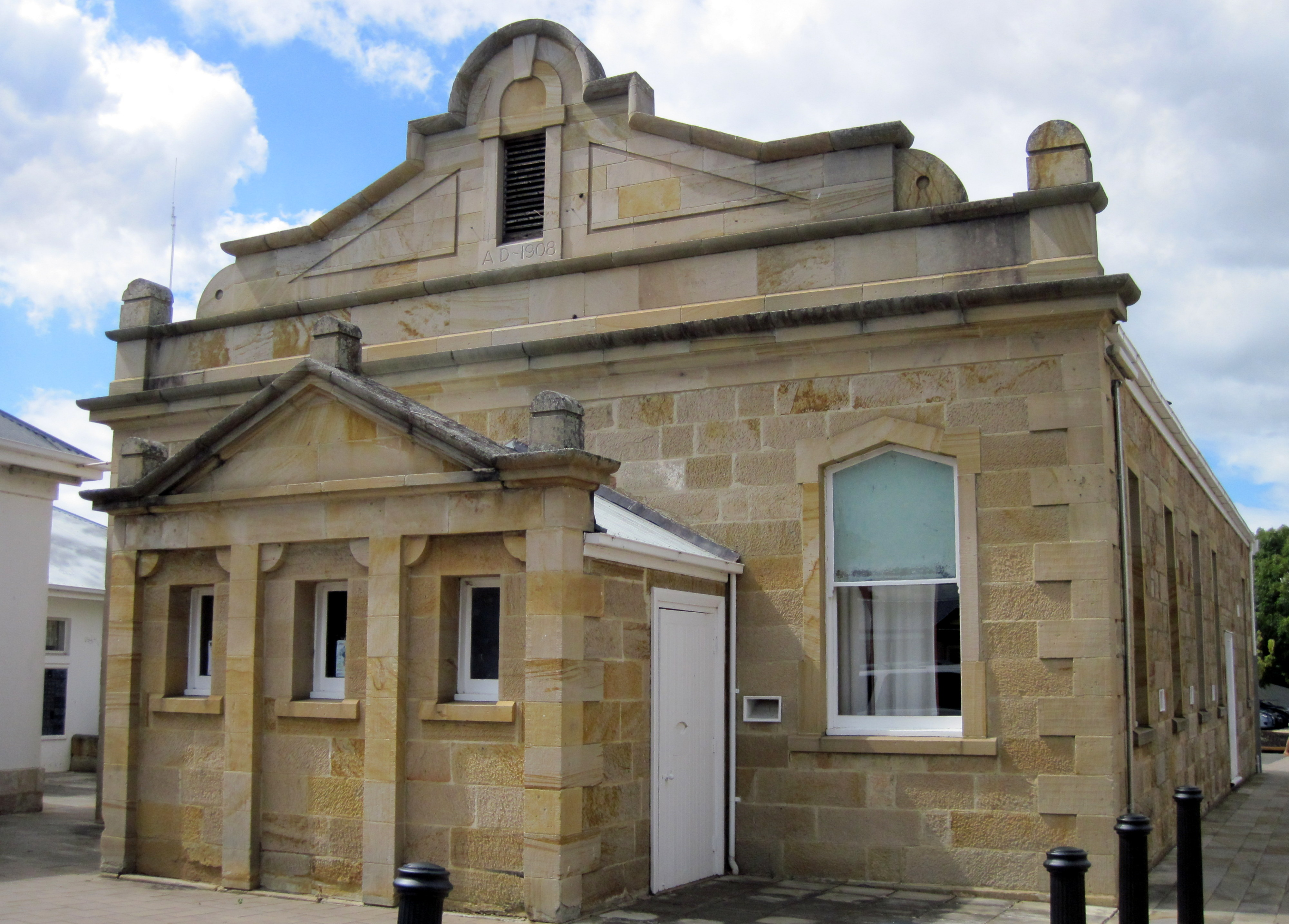 Old sandstone courthouse at Bridge and Forth Streets in Richmond, Tasmania, Australia